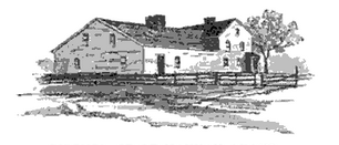 Birthplace of Hannah Adams, Medfield, Massachusetts, US